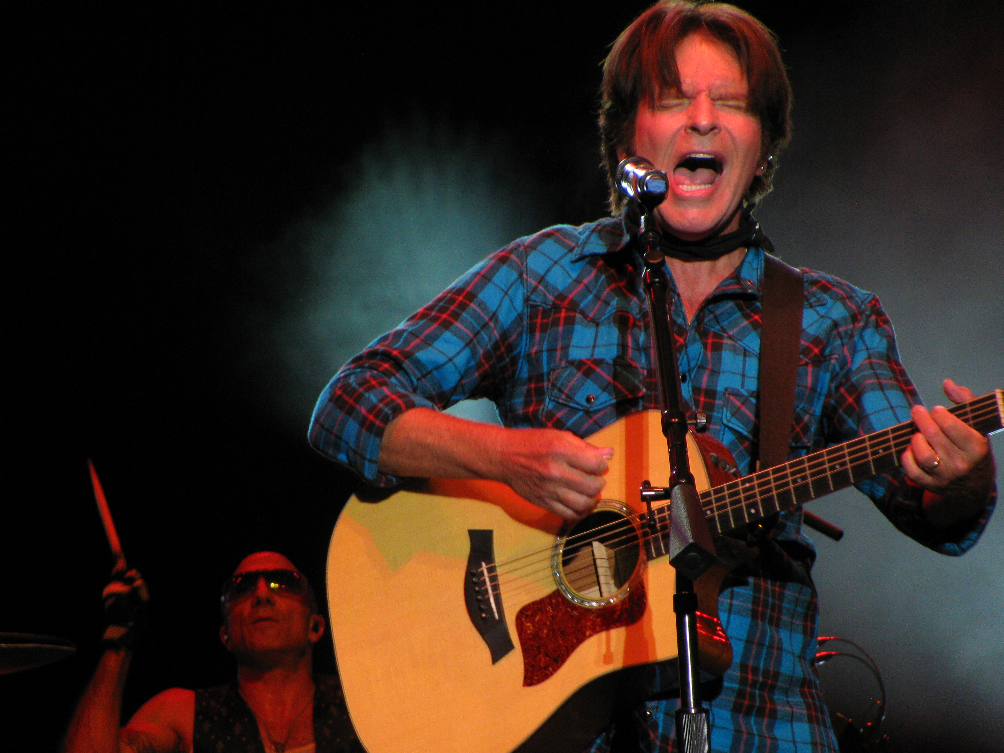 John Fogerty at the 2011 Ottawa Bluesfest.